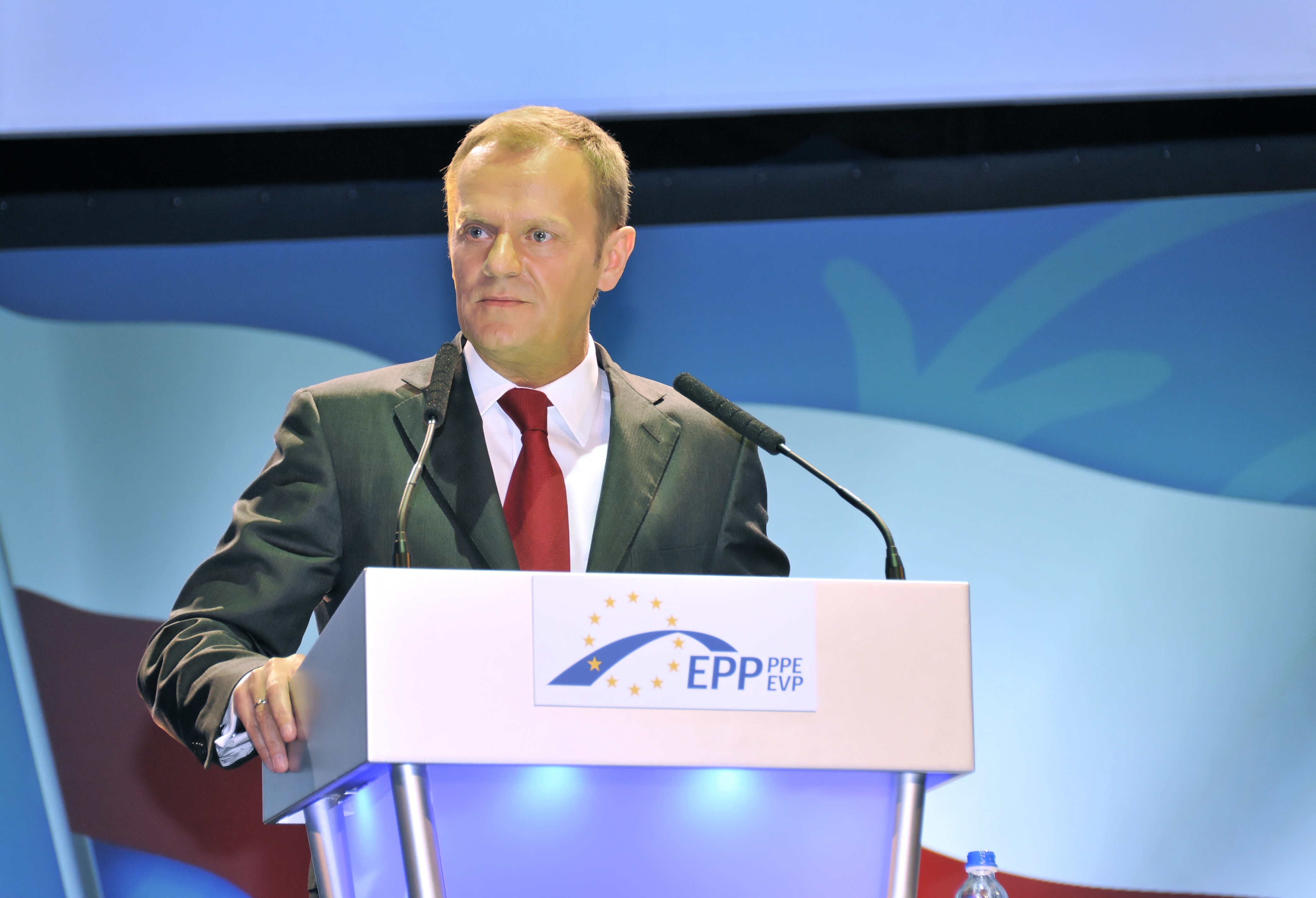 EPP Congress in Warsaw